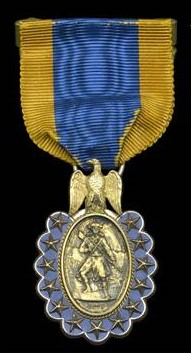 General Society Sons of the Revolution Insignia